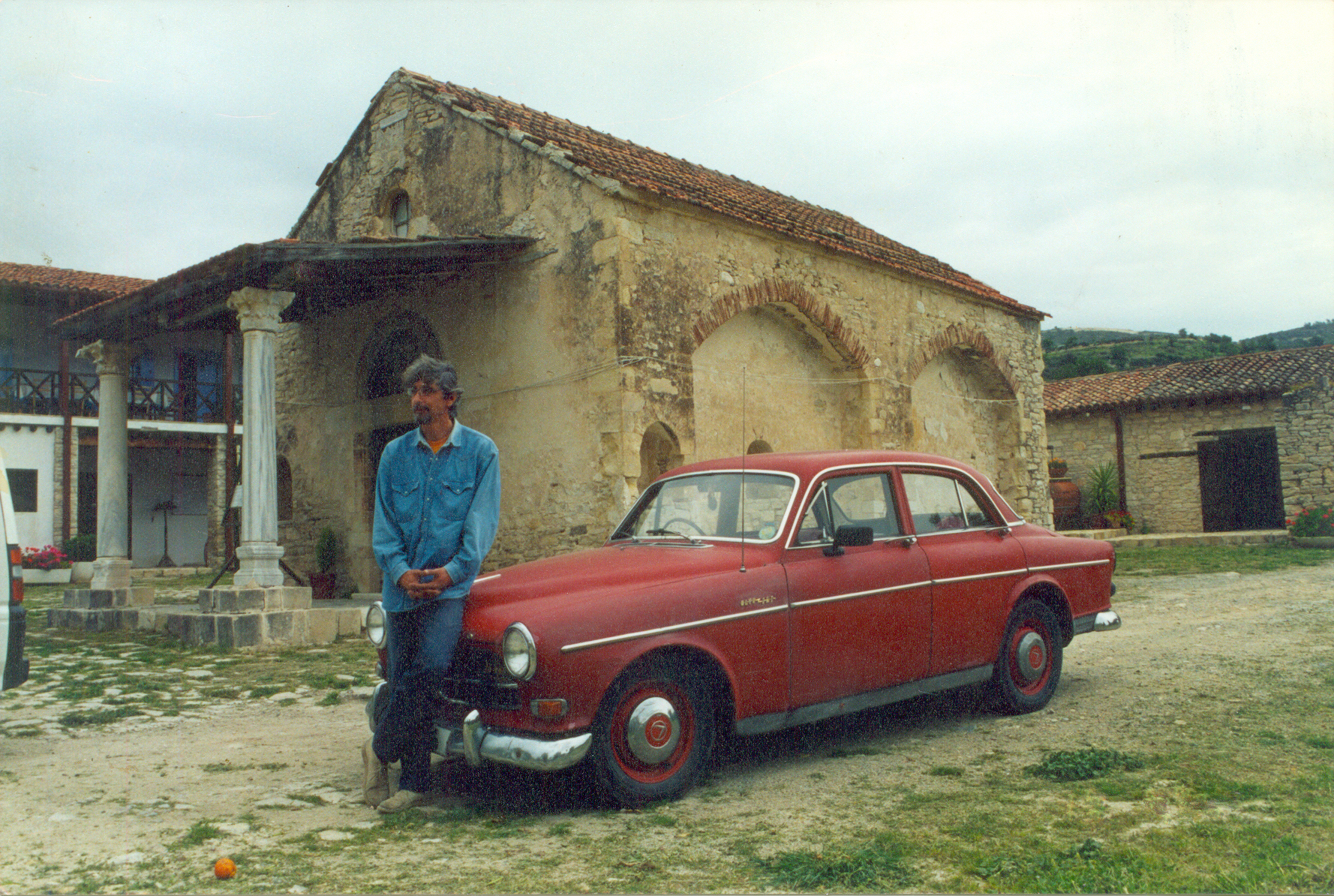 Sasha at Monagri Foundation 2002 Volvo B18 1961